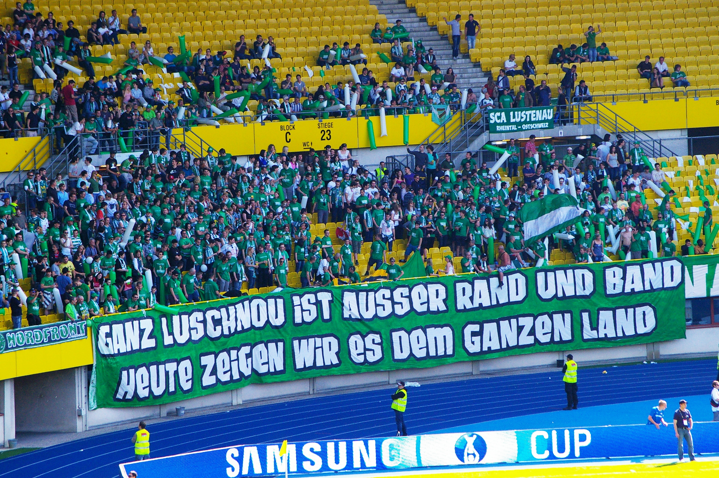 supporters Austria Lustenau